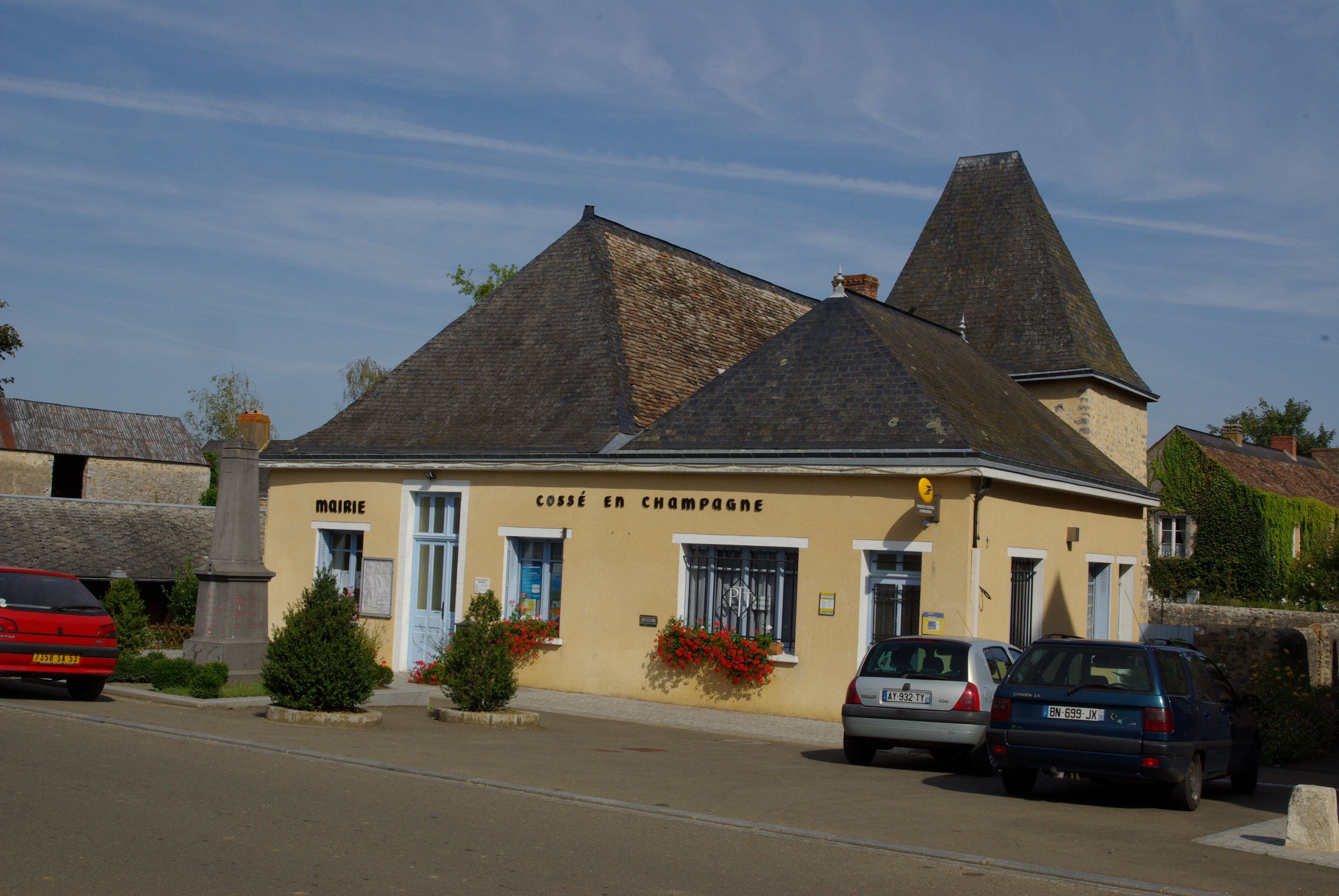 City Hall Cosse-en-Champagne